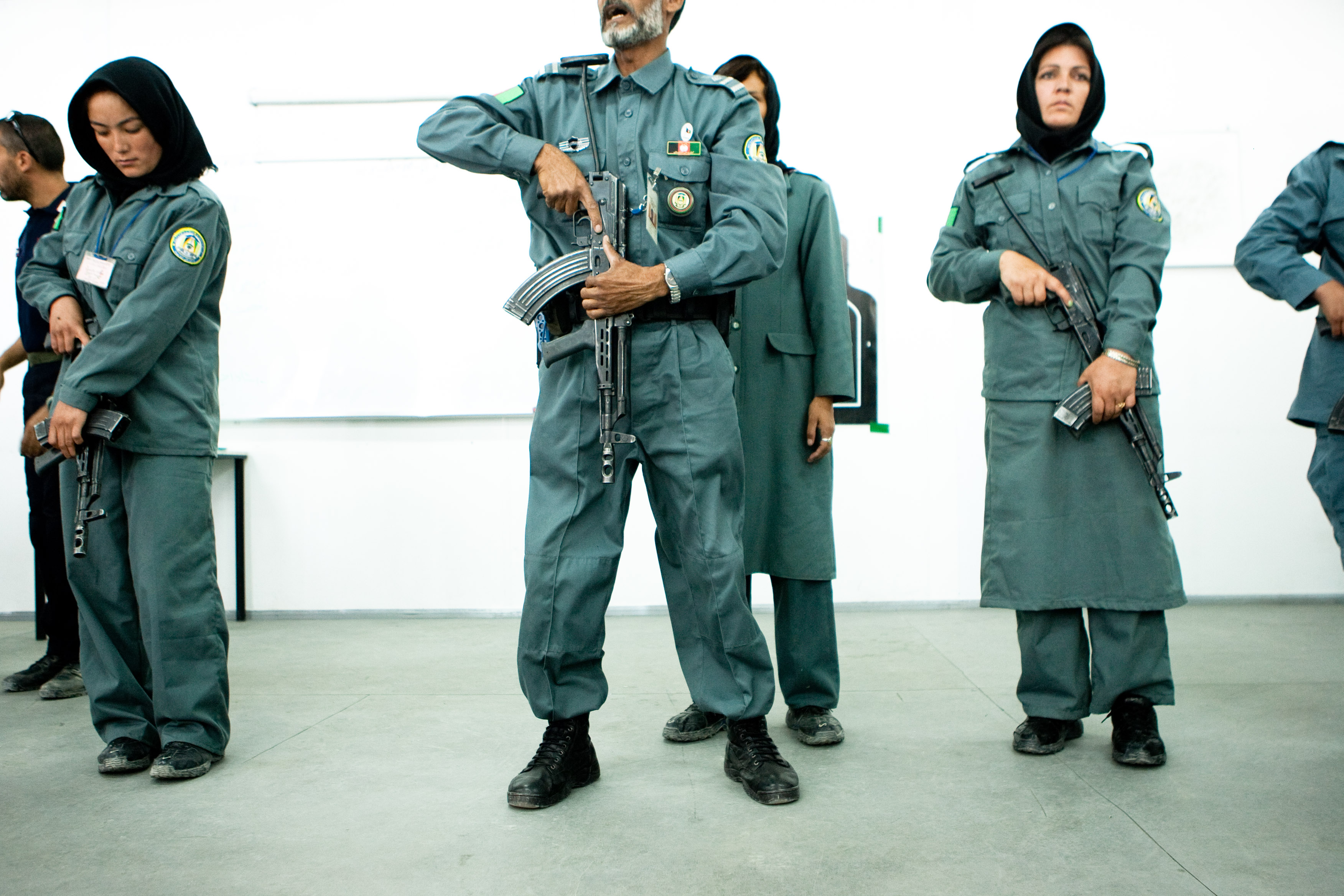 100710-N-6939M-004 Kabul, Afghanistan (July 10, 2010) Women cadets practice marksmanship for two weeks out of their eight-week basic police training at Combined Training Center Kabul, Afghanistan. (Photo by Mass Communications Specialist 1st Class Christopher Mobley)